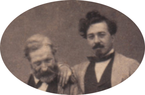 French photographers Adolphe and Amédée Trantoul circa 1865